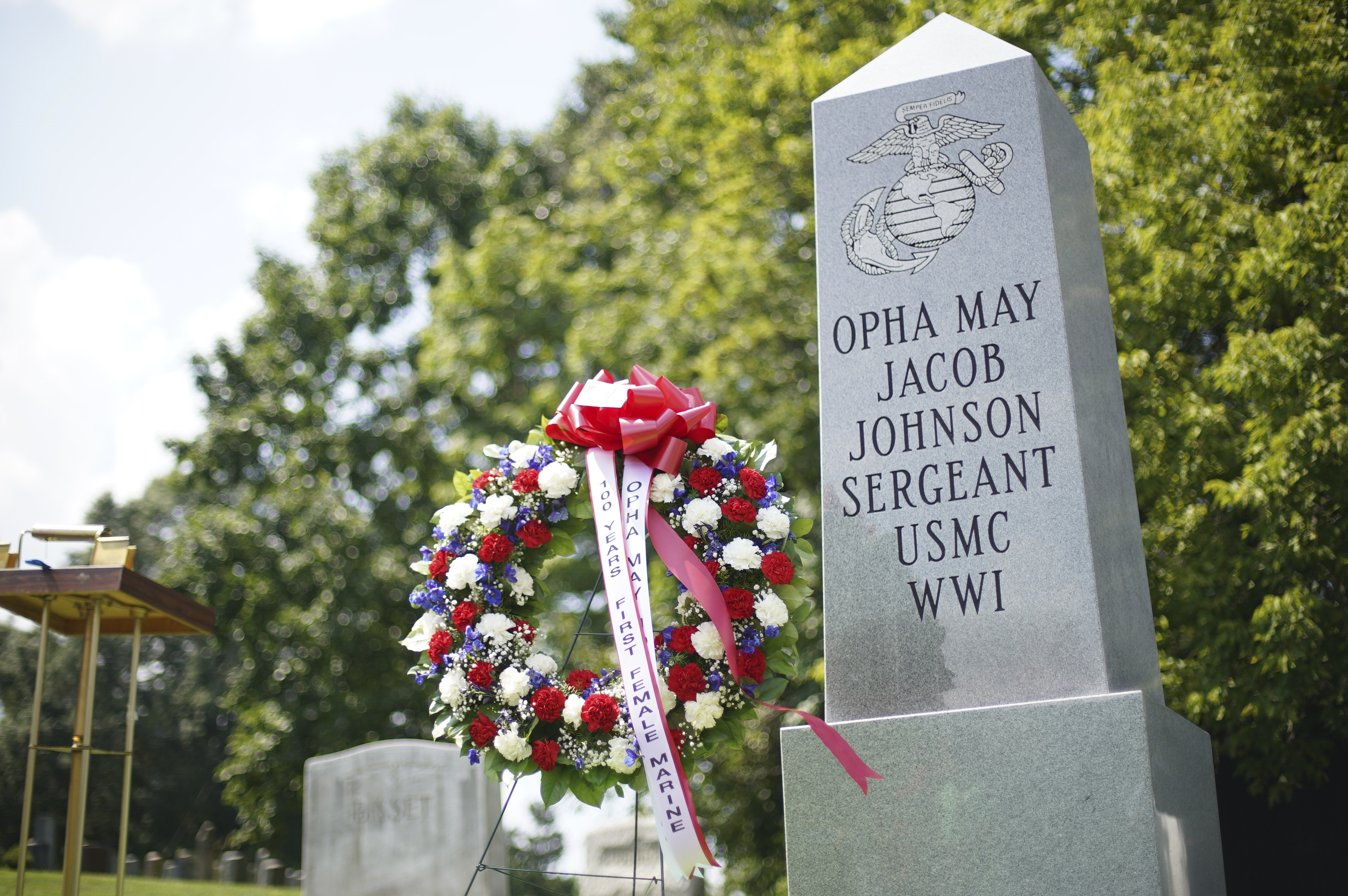 Opha May Johnson monument St. Paul’s Rock Creek Cemetery, Washington, D.C